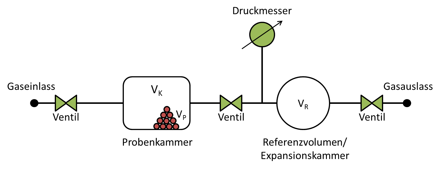 Gaspyknometer Constant Volume Schematic